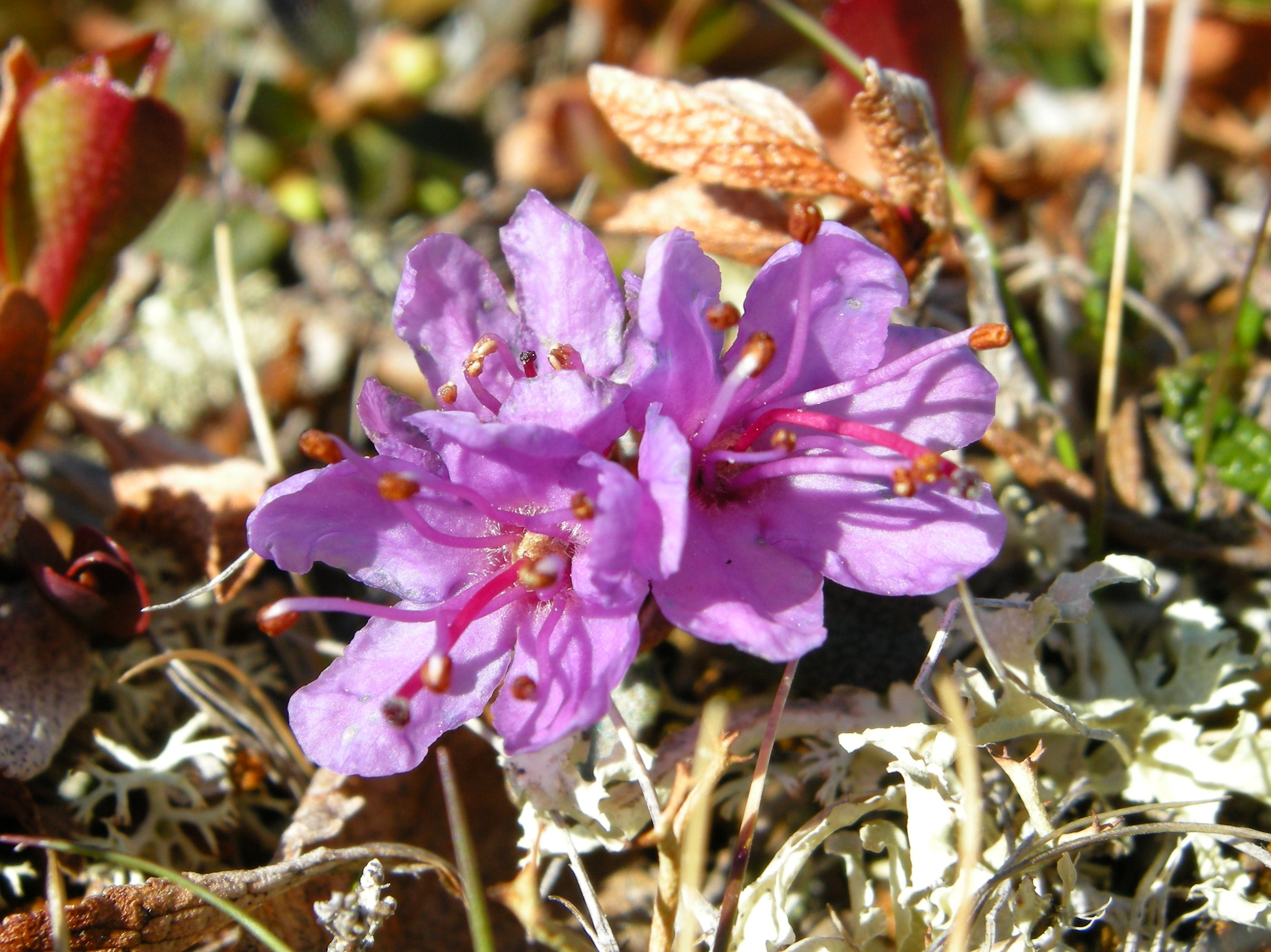 Rhododendron lapponicum in Kolvik, Porsanger, Norway